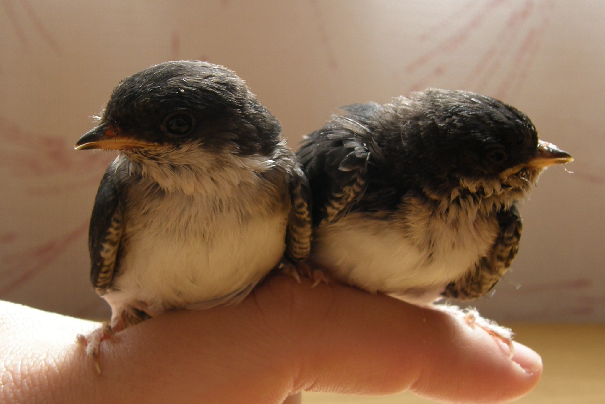 House Martin Delichon urbicum